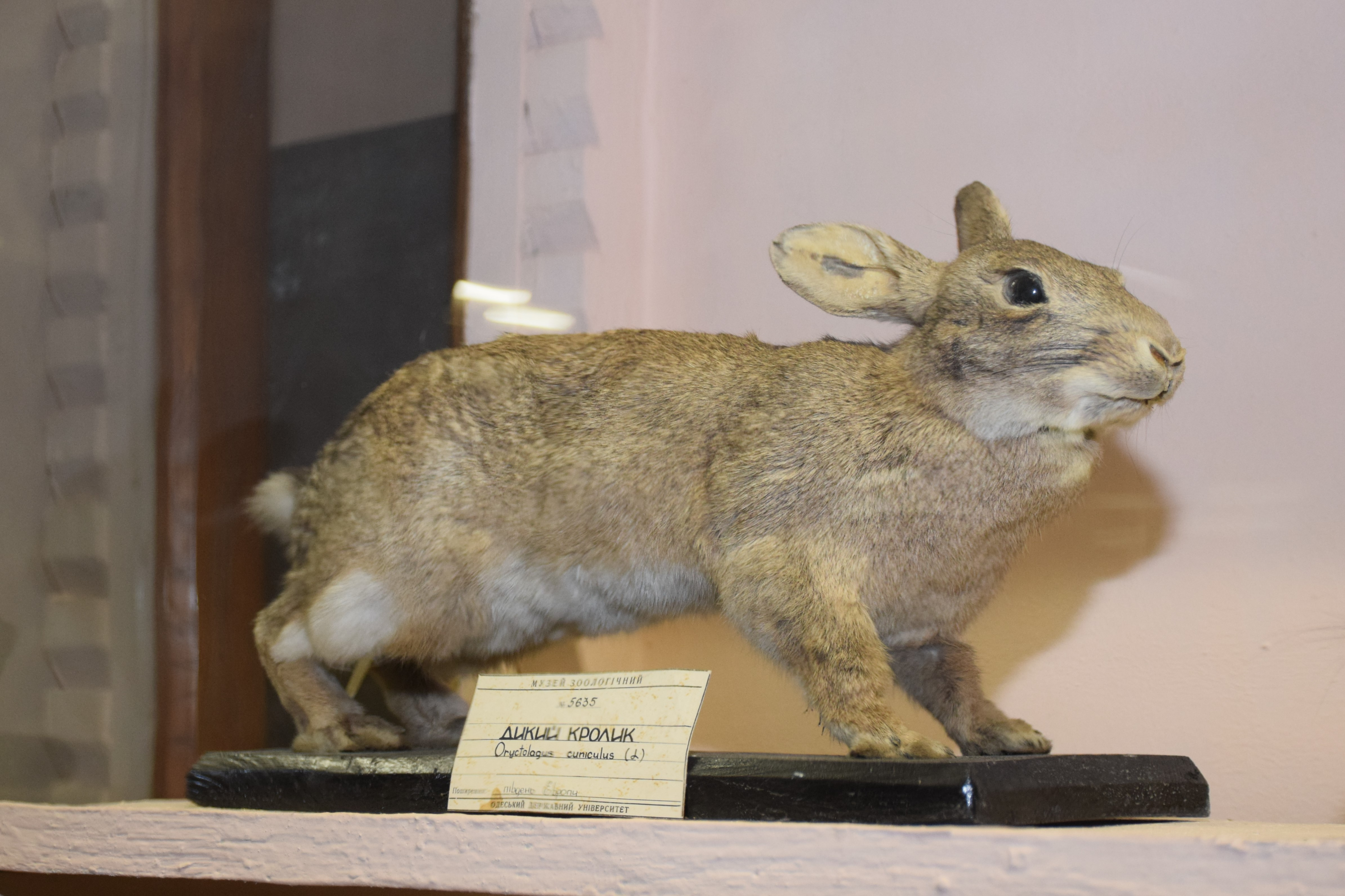 European rabbit in exposition of the Zoological Museum of Odessa National I. I. Mechnokov University in Ukraine